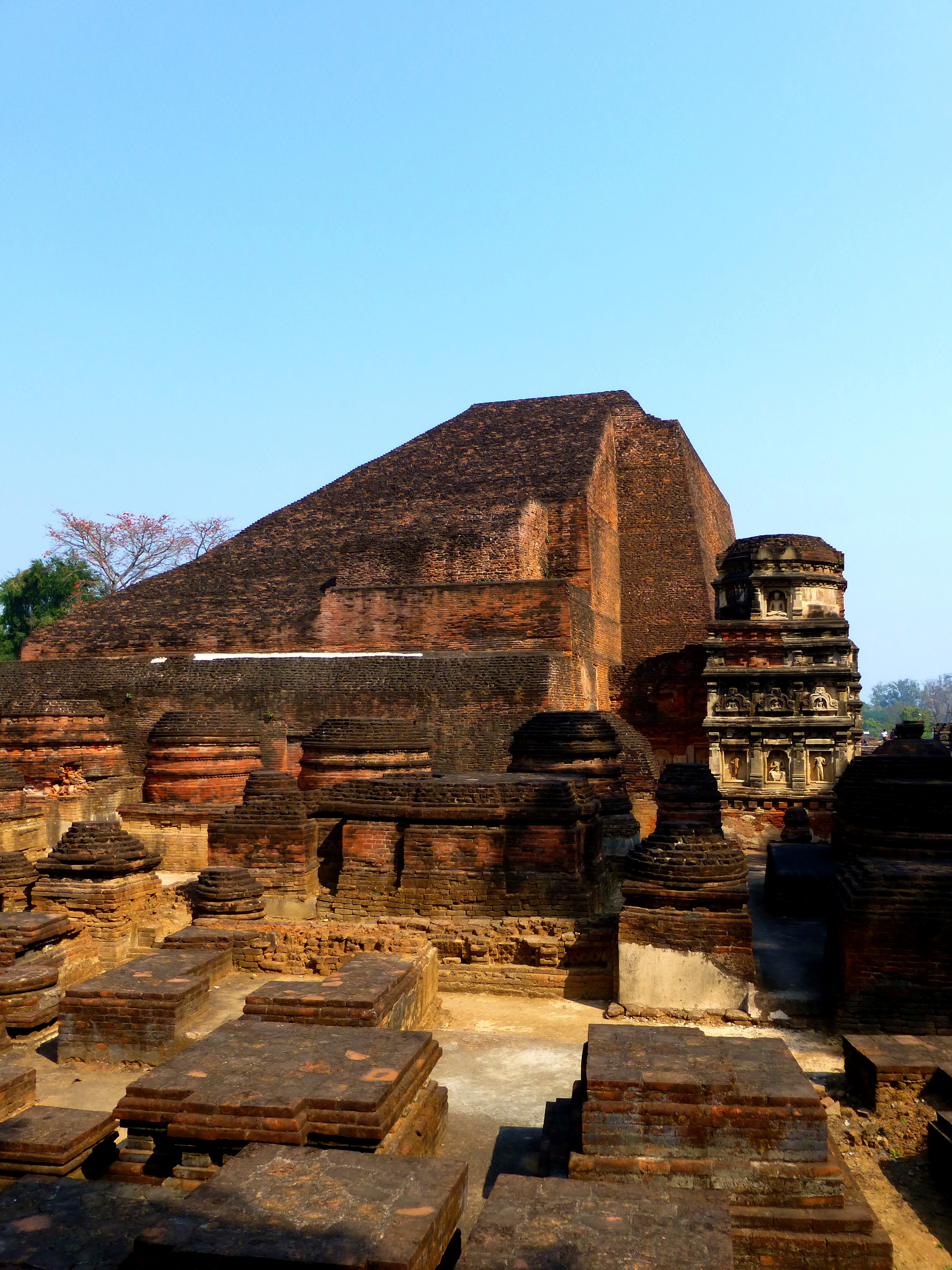 009 Stupas and Temple at Nalanda Photograph from the ruins of Nalanda in Bihar taken by Anandajoti.